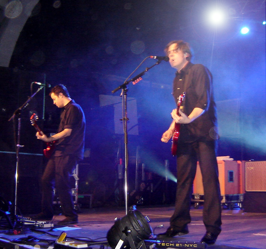 Jim Adkins and Tom Linton of Jimmy Eat World playing at Schlachthof in Wiesbaden, Germany